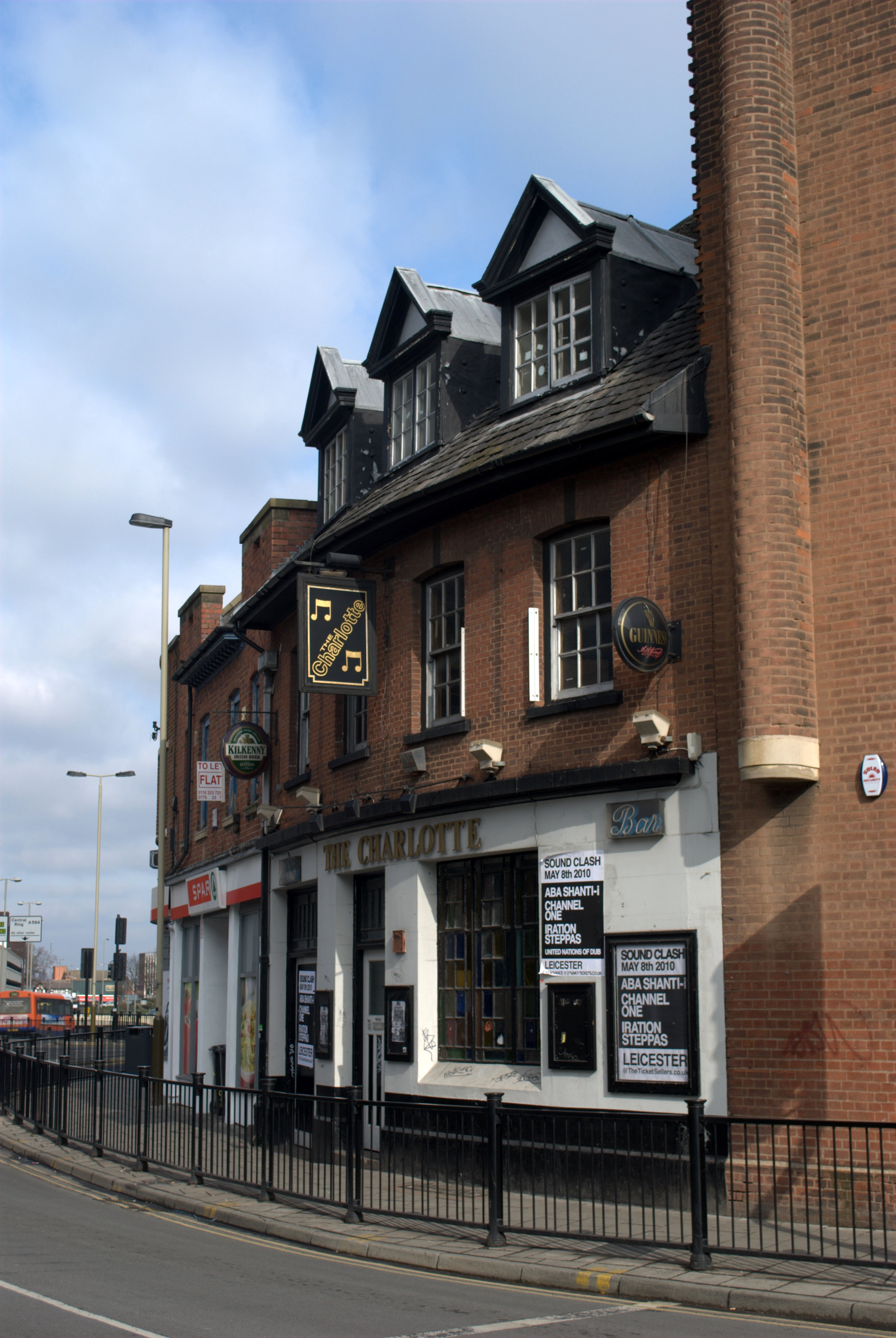 The Charlotte, a public house and music venue in Leicester.